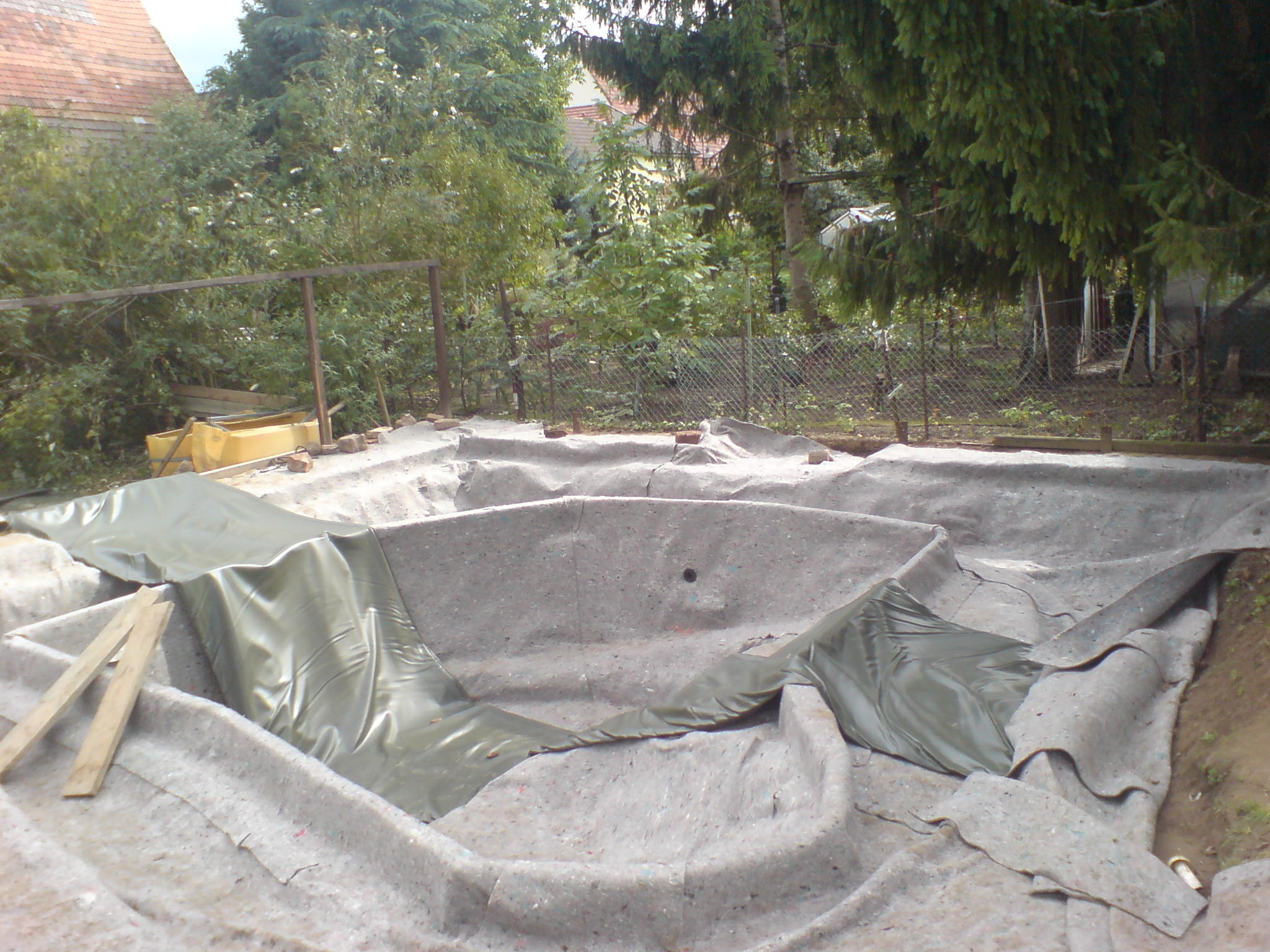 we build a pond - part 1: the pond foil